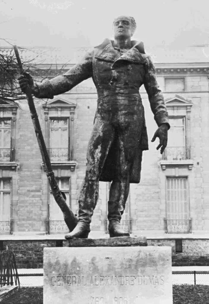 Late 19th-century picture of a statue of General Thomas-Alexandre Dumas that was destroyed by the Germans during the occupation of Paris